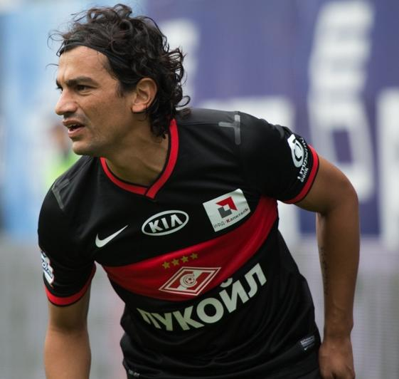 Tino Costa with FC Spartak Moscow in 2013.